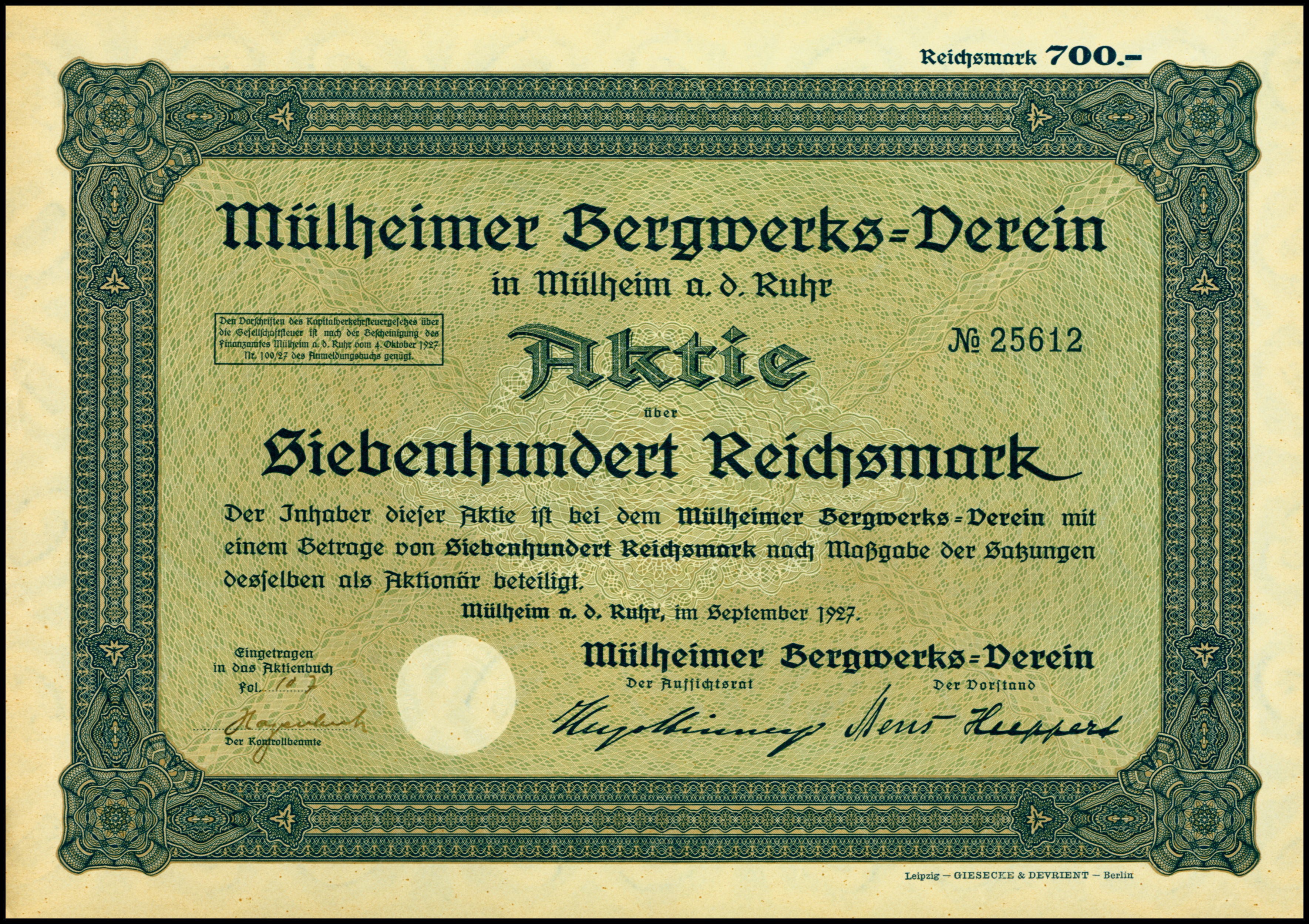 Share of the Mülheimer Bergwerks-Verein, issued September 1927